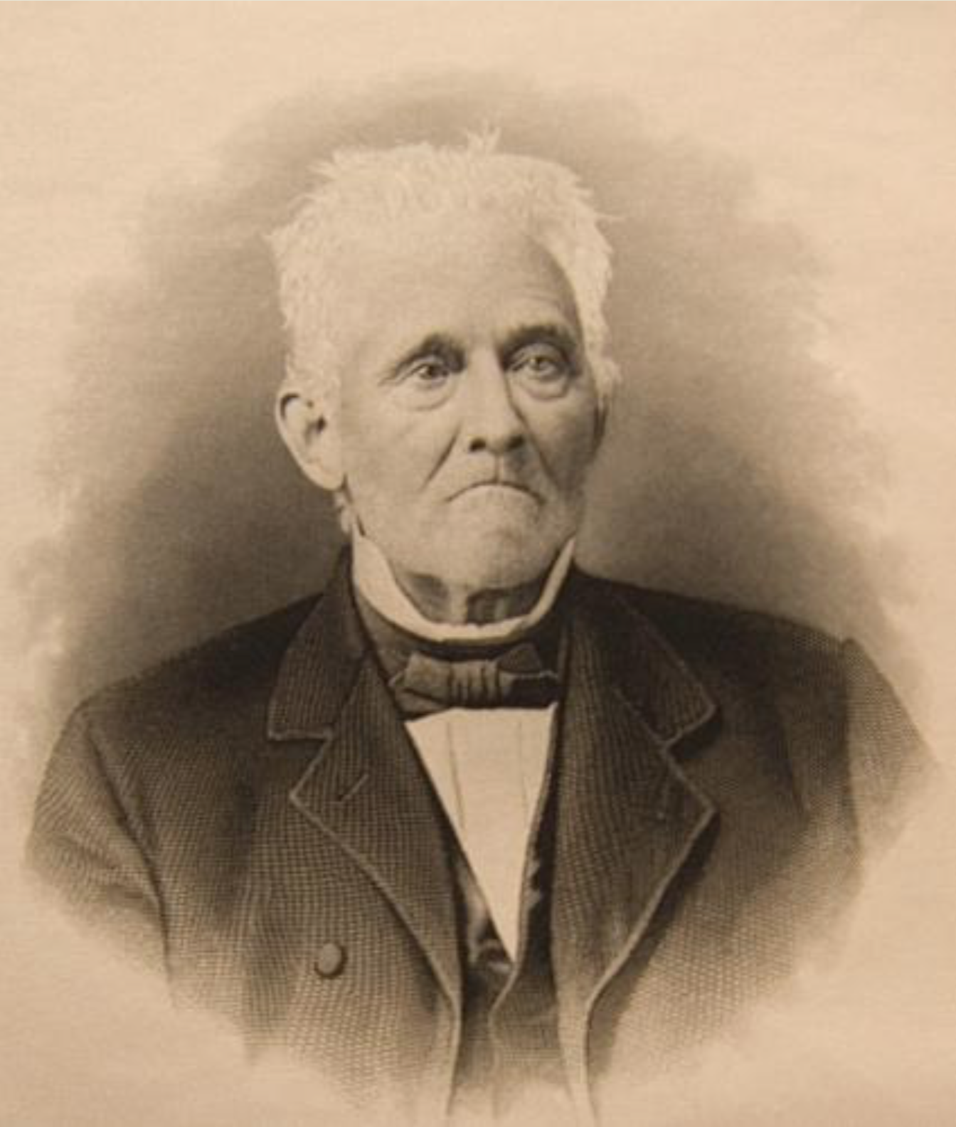 An image of Louis Campau dated near 1870.